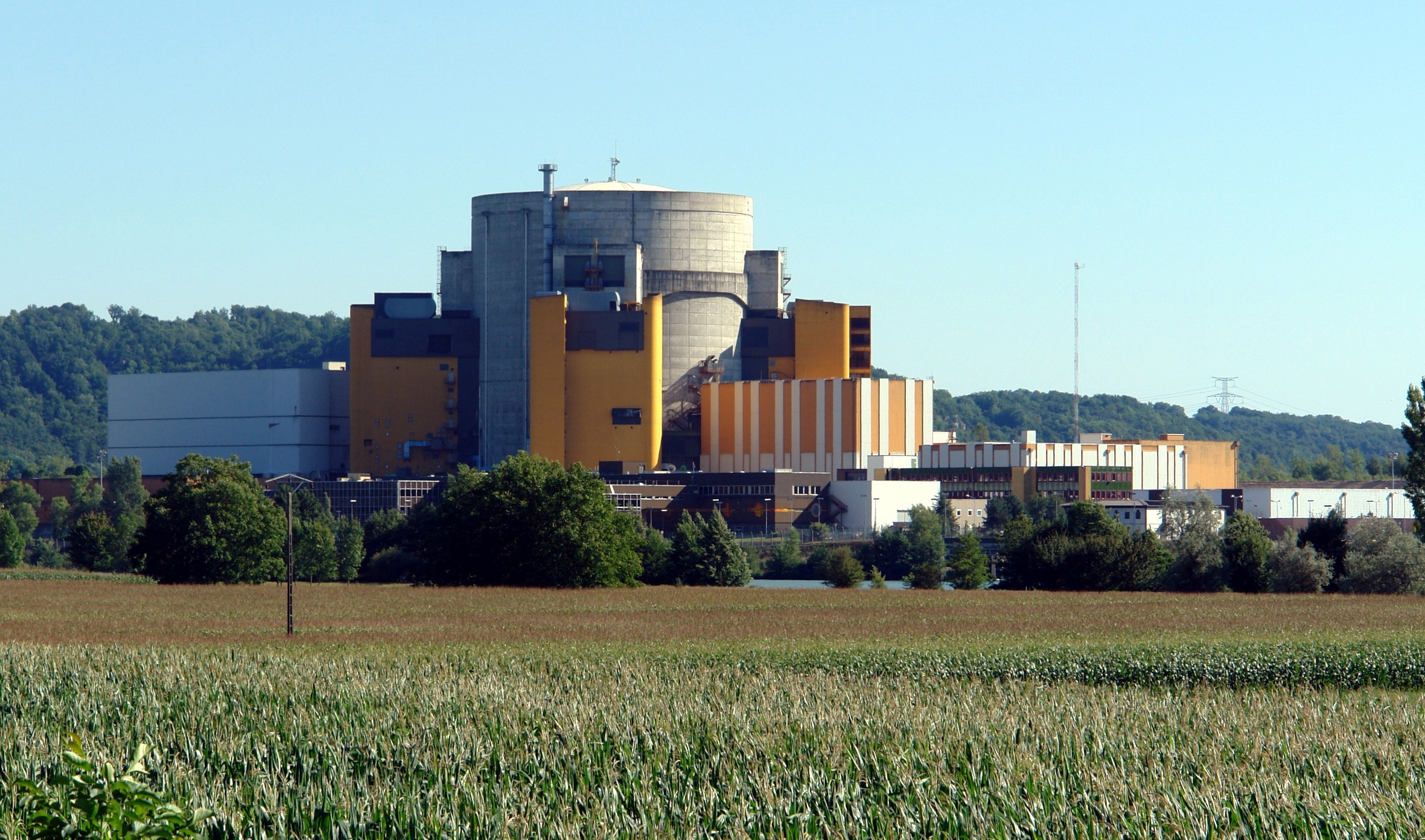 Superphenix, Nuclear reactor of Creys-Malville, east side, Isère, France.